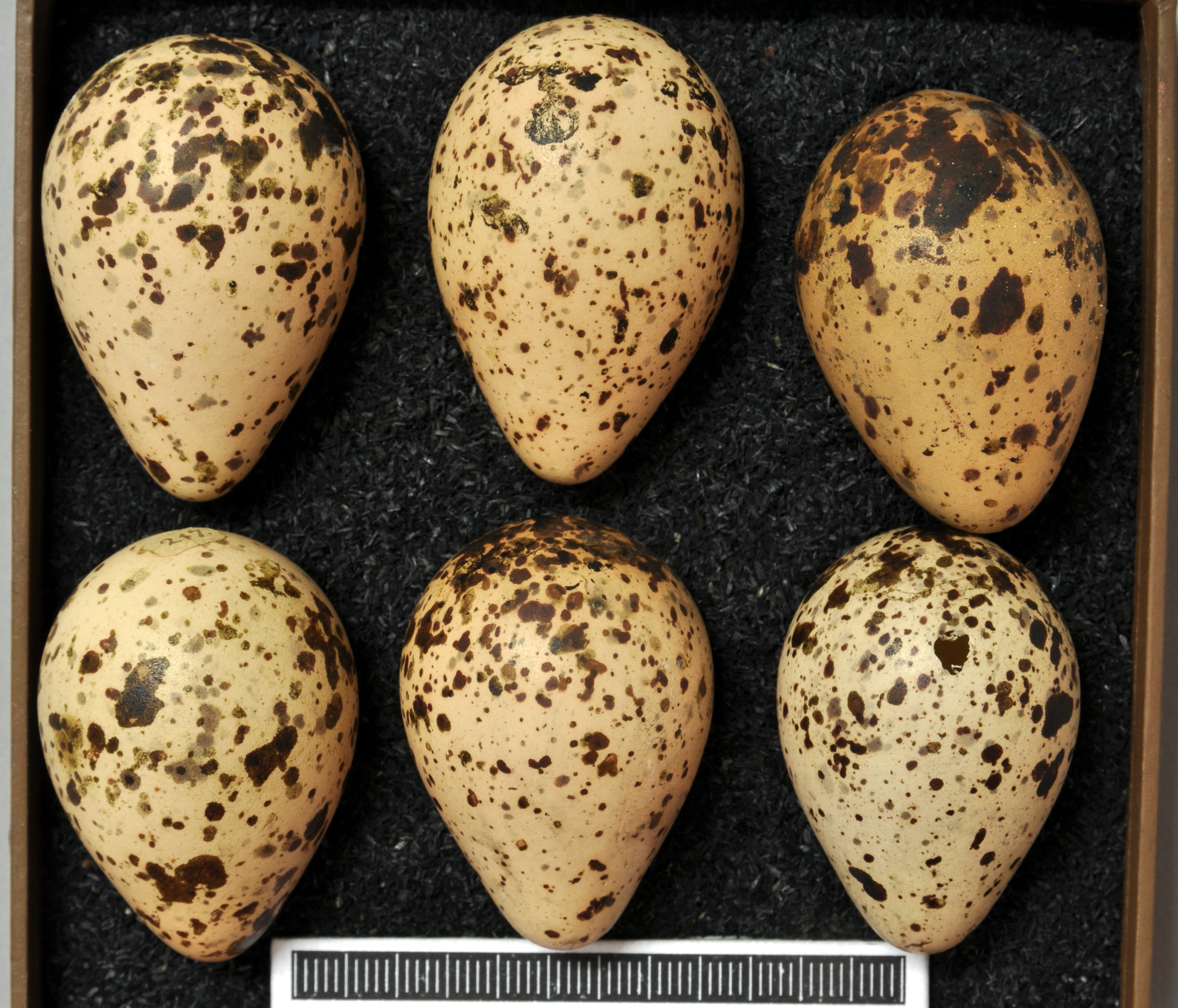 Common redshank Tringa totanus , egg, Coll. Museum Wiesbaden